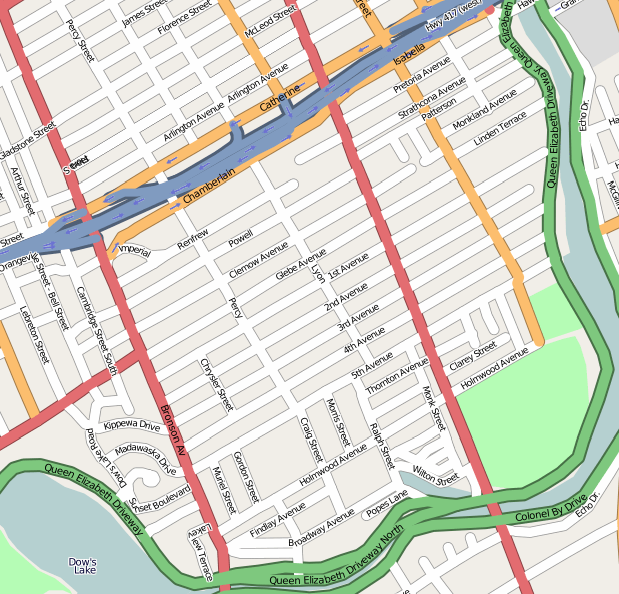 This map may be incomplete, and may contain errors. Don't rely solely on it for navigation.